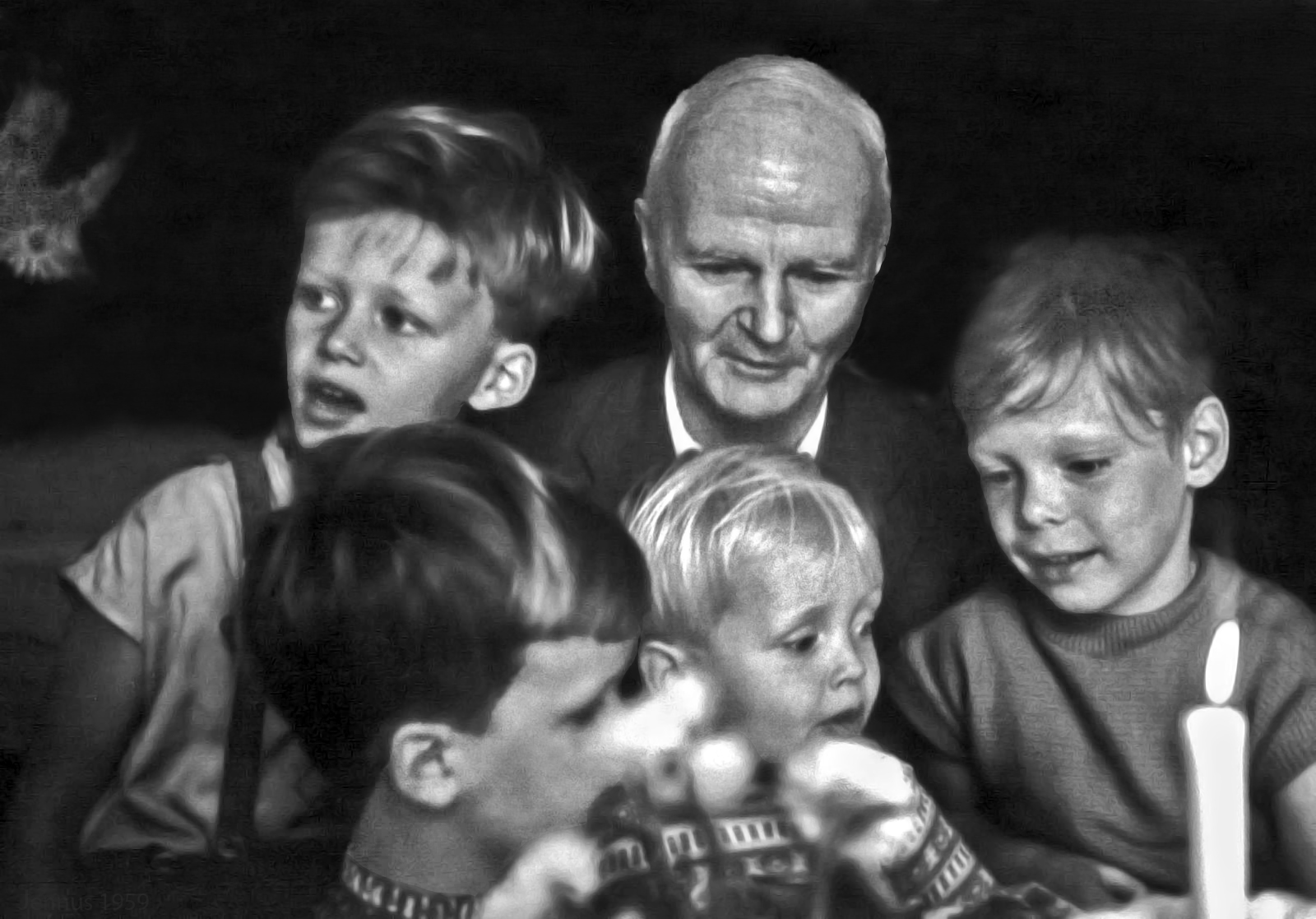 Franz Mutzenbecher with children in 1959